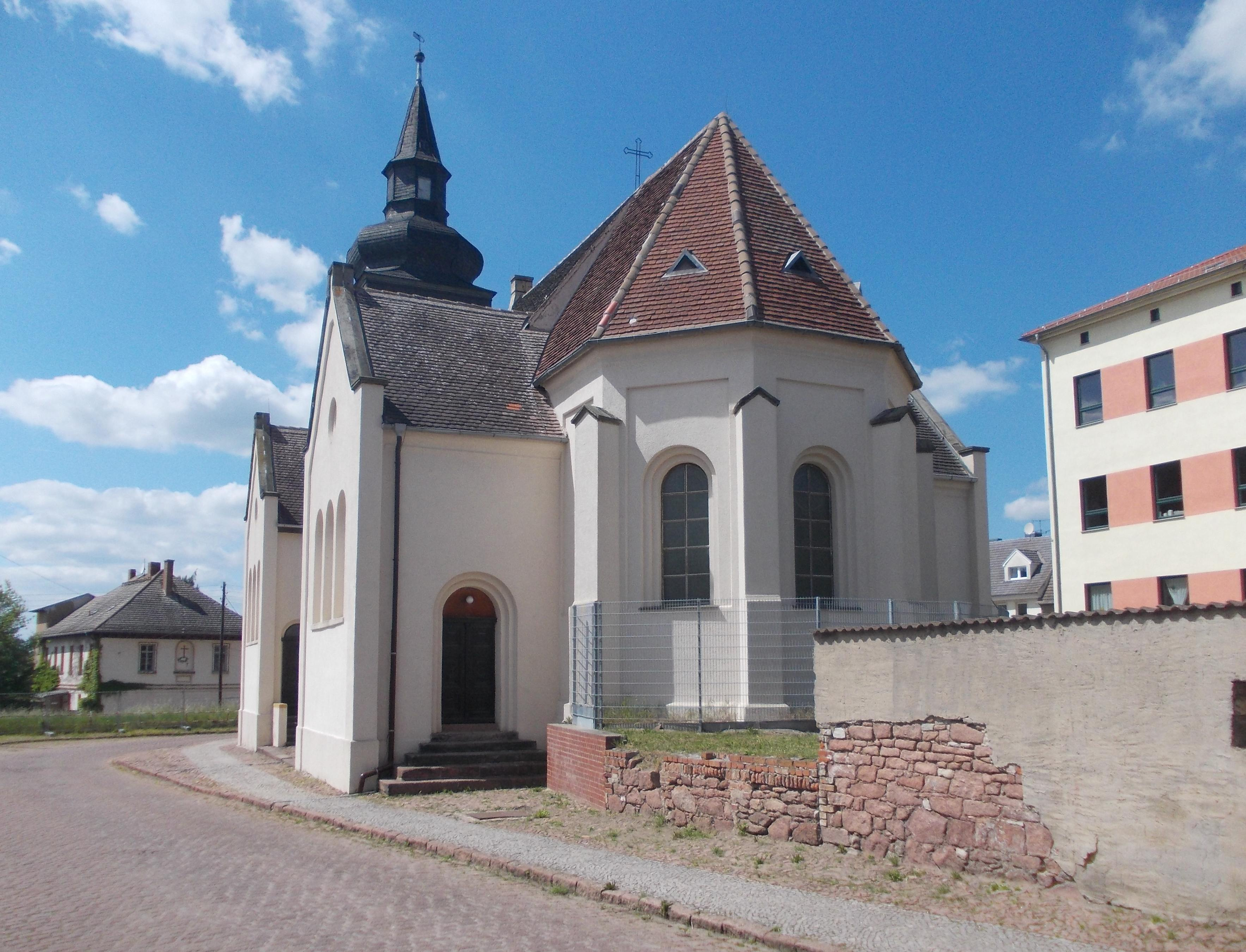 St. Martin's Church in Gröbzig (Südliches Anhalt, Anhalt-Bitterfeld district, Saxony-Anhalt)